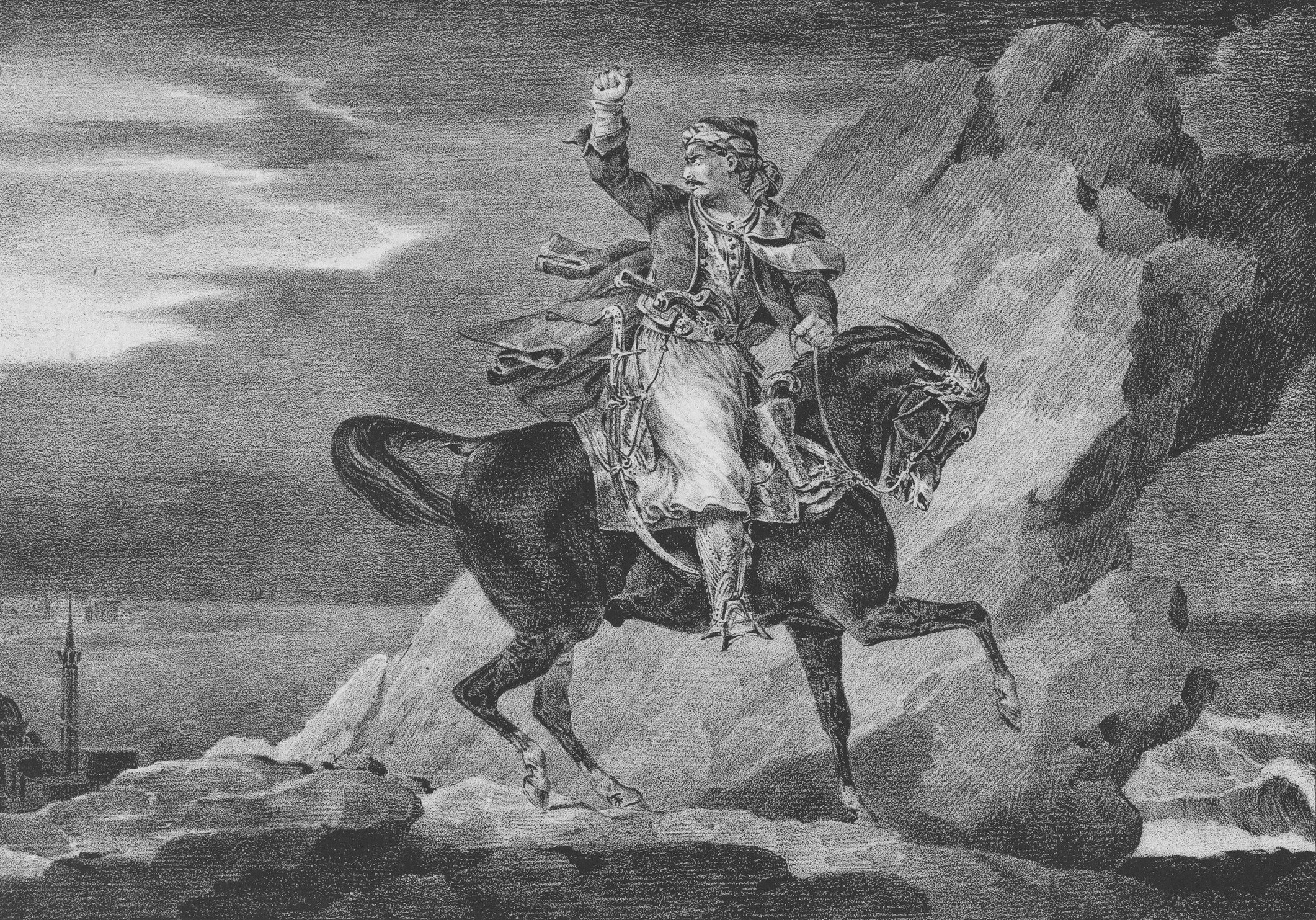 Print; Prints